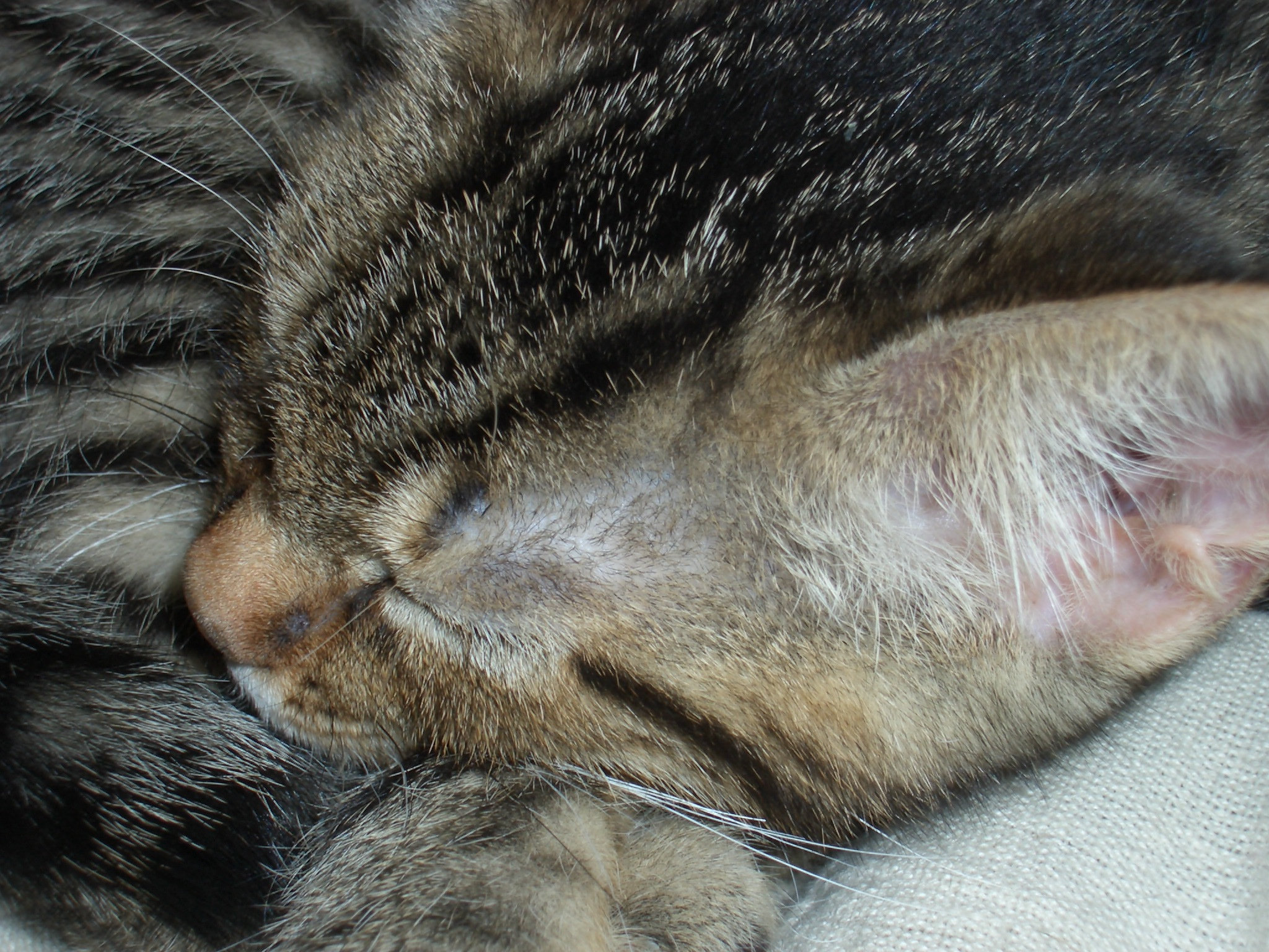 A detailed photo showing the fur on the head of a sleeping kitten.